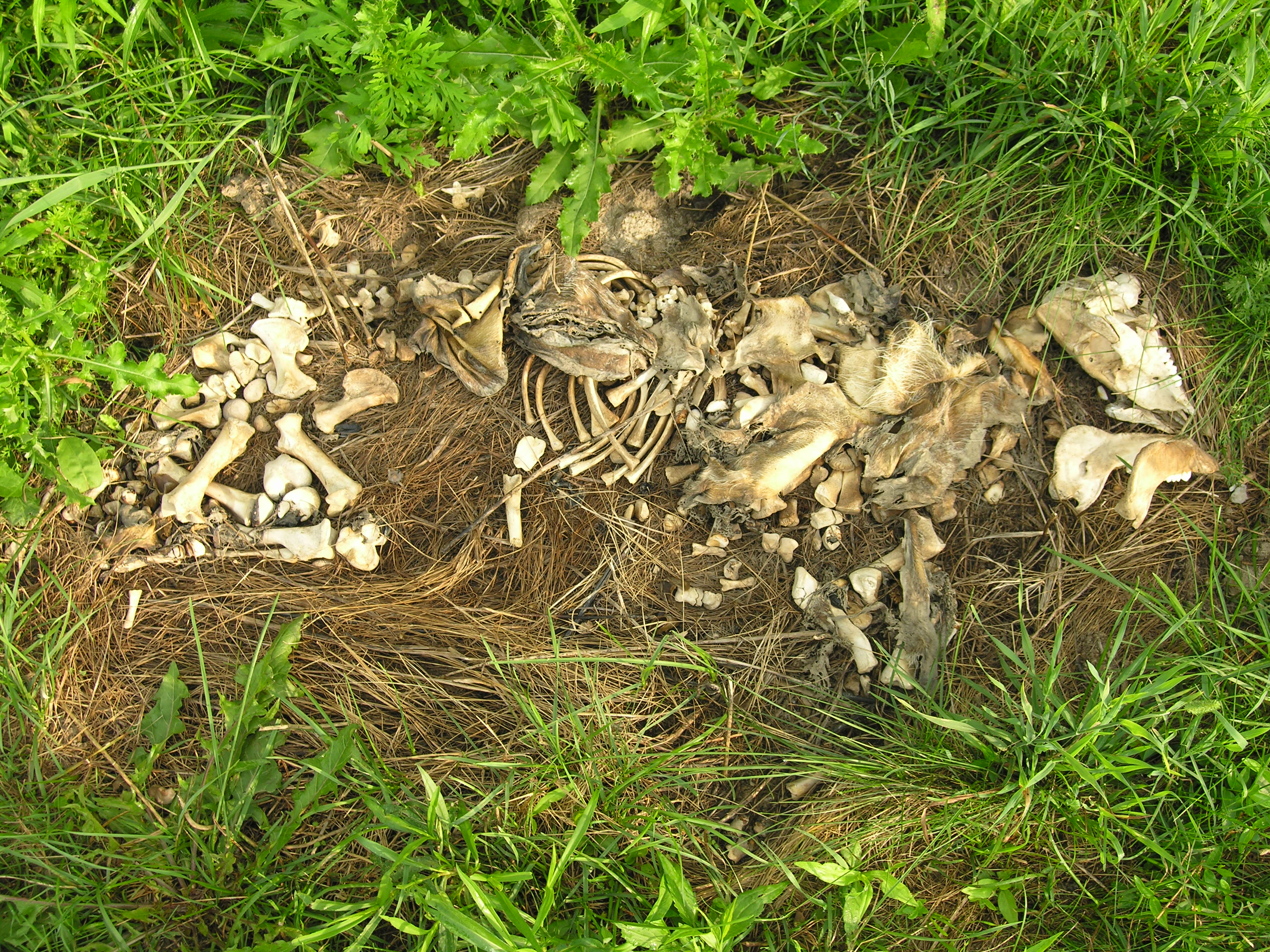 Example of a partially skeletonized pig (Sus scrofa). The carcass is composed mainly of bones with some skin remaining over the upper torso.